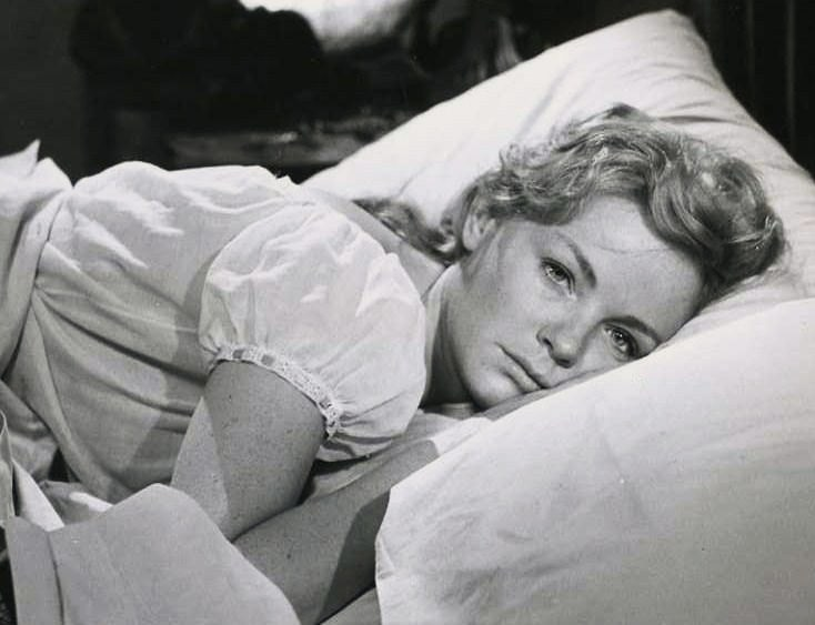 Etchika Choureau in the American war film Darby's Rangers (1958) - publicity still (cropped : see source).